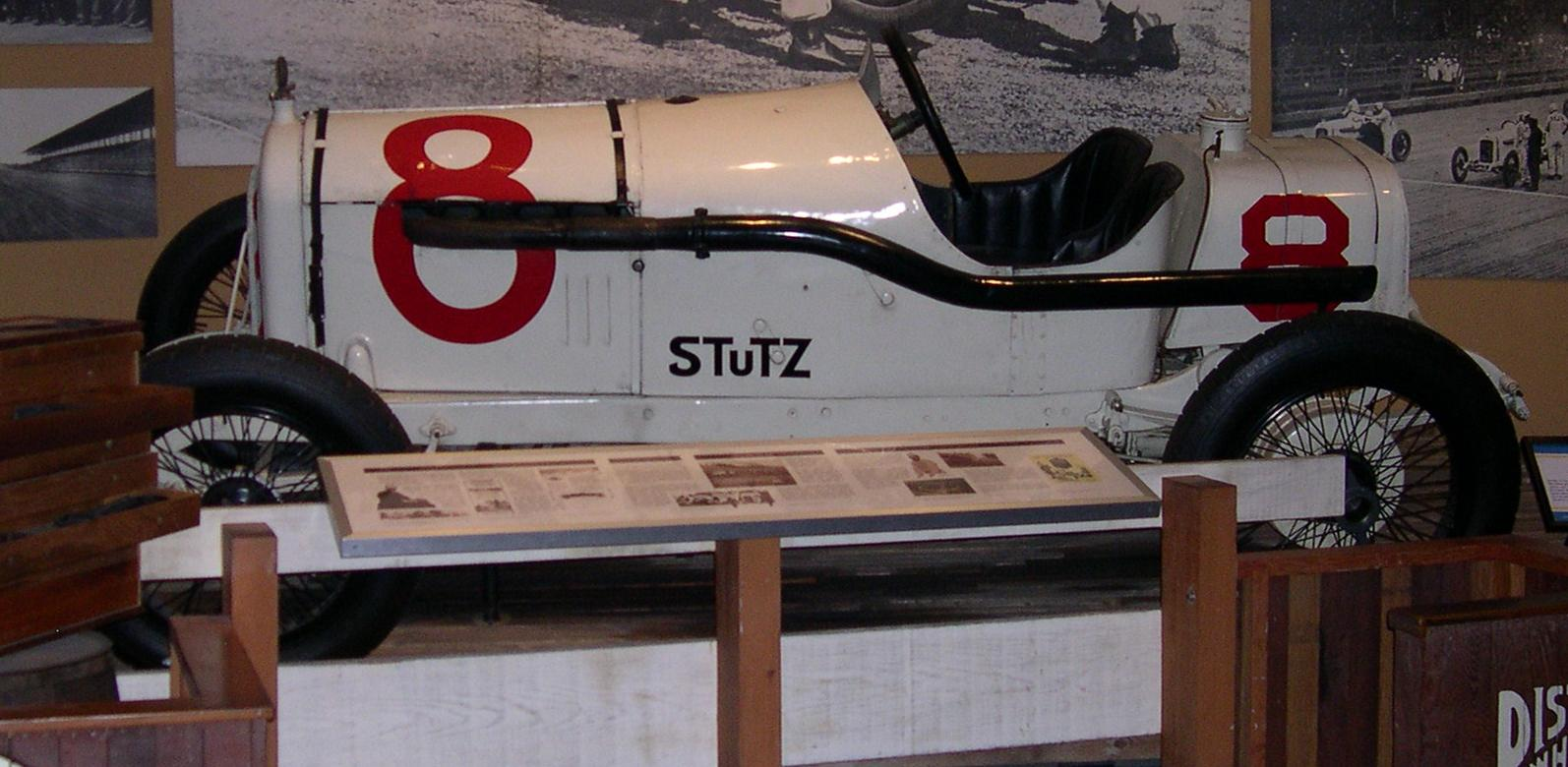 1915 Stutz White Squadron racer From the Petersen Automotive Museum, Los Angeles, CA This appears to be an image of the same car as Image:EarlCooper.jpg.